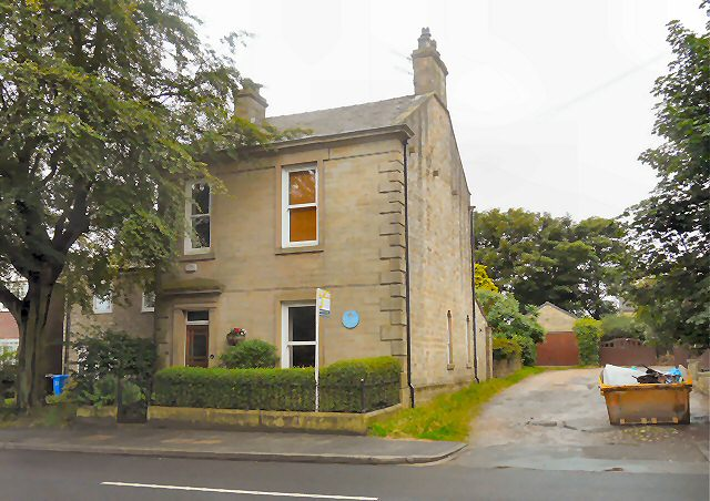 The Elms. The home of L S Lowry from 1948 until his death in 1976. On Stalybridge Road, Mottram in Longdendale and currently for sale. Read the blue plaque: 1410129.